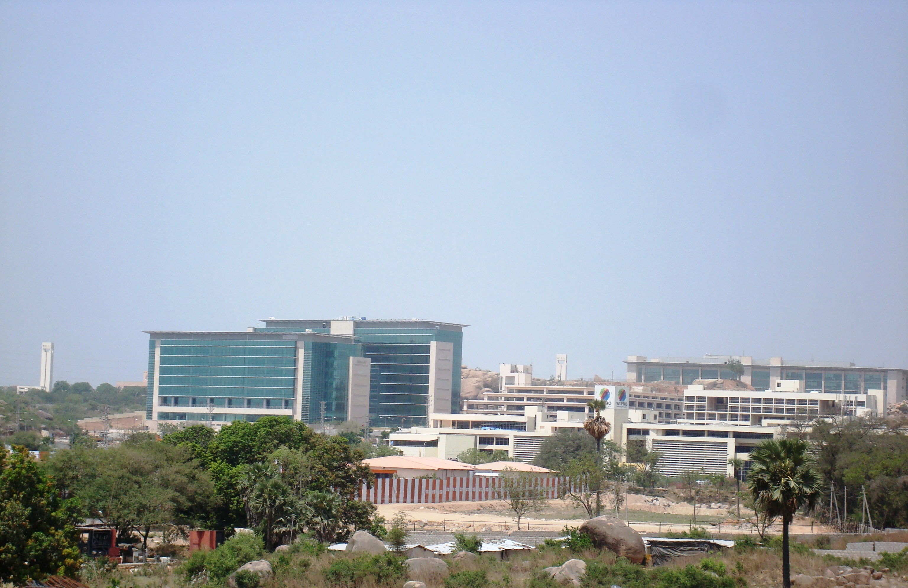 This image shows the Gachibowli IT hub located at Hyderabad city. self-phographed.